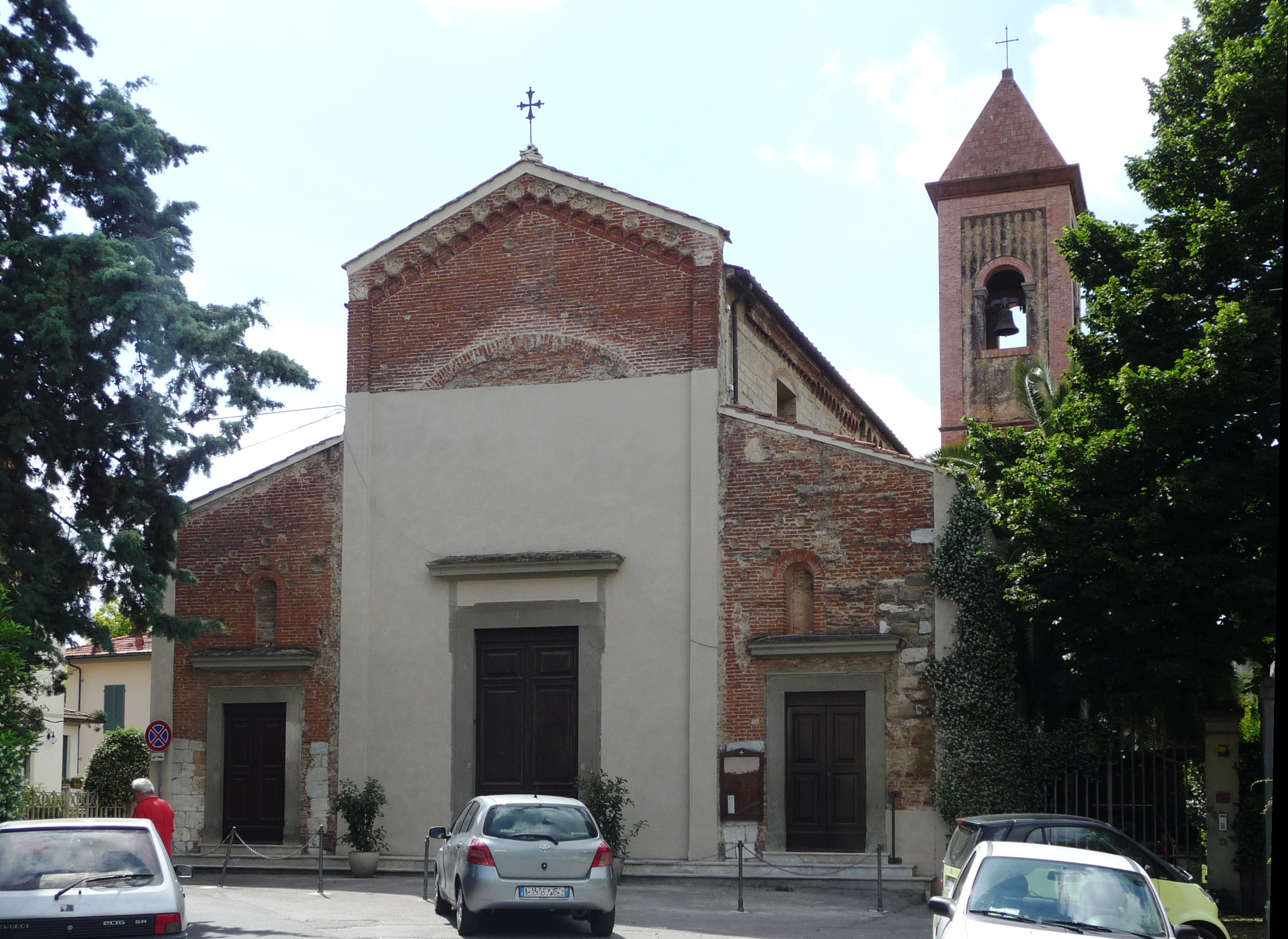 Church "Santo Stefano extra Moenia", Pisa, Italy